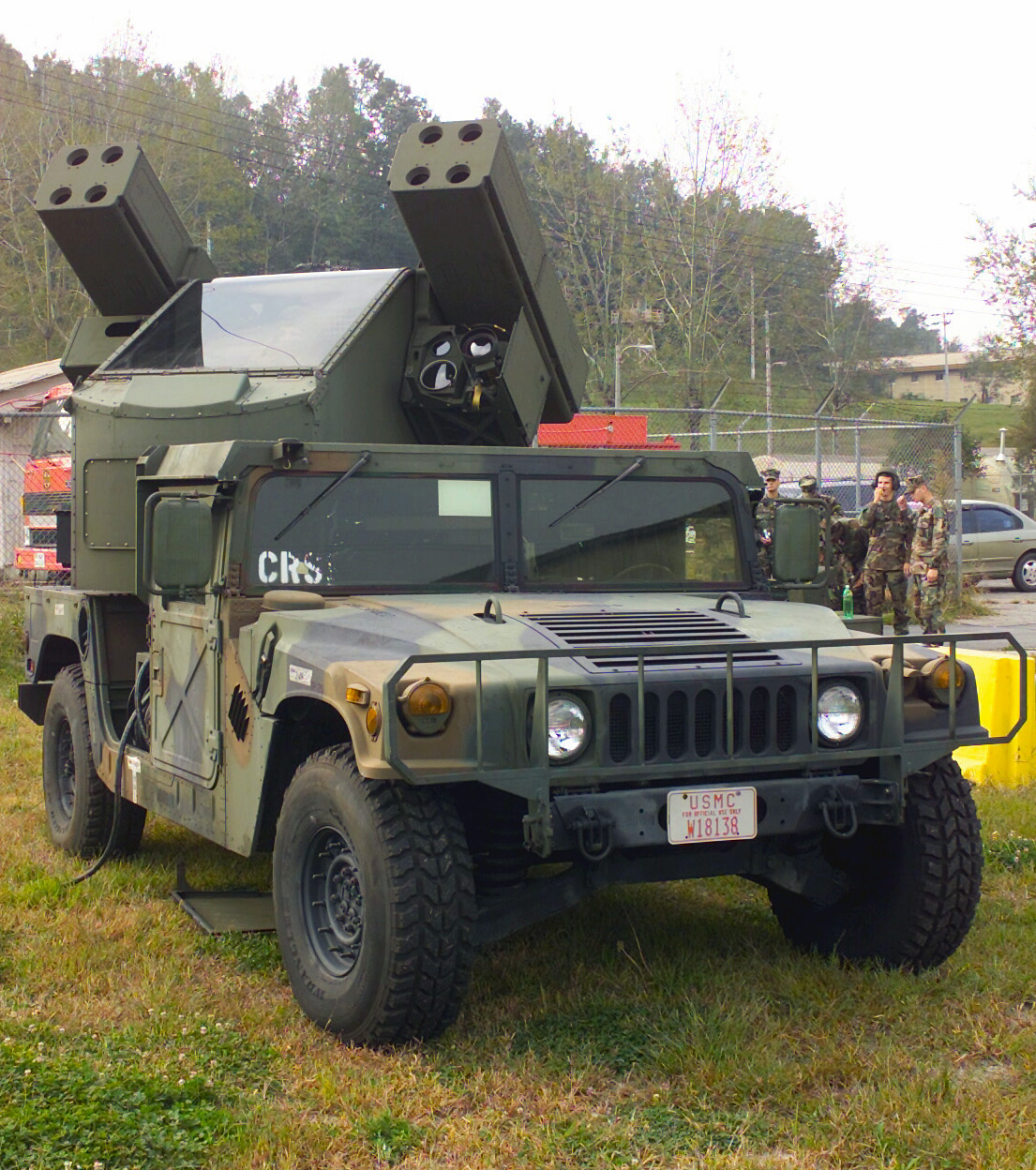 A US Marine Corps (USMC) FIM-92 Avenger, Pedestal Mounted Stinger Missile System mounted on a M1097 High-Mobility Multi Purposed Wheeled Vehicle (HMMWV) assigned to 1st Stinger Battery, 1st Marine Air Wing (MAW), during a live fire exercise at Camp Casey, Okinawa, Japan. Location: CAMP CASEY, OKINAWA JAPAN (JPN)